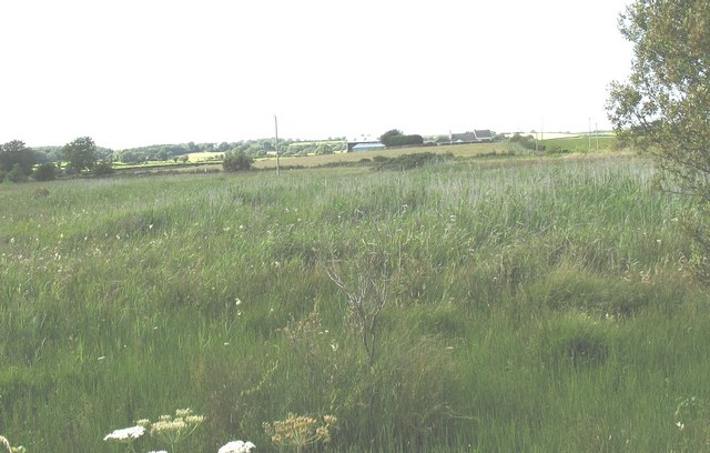 A small section of the Cors Bodeilio fen